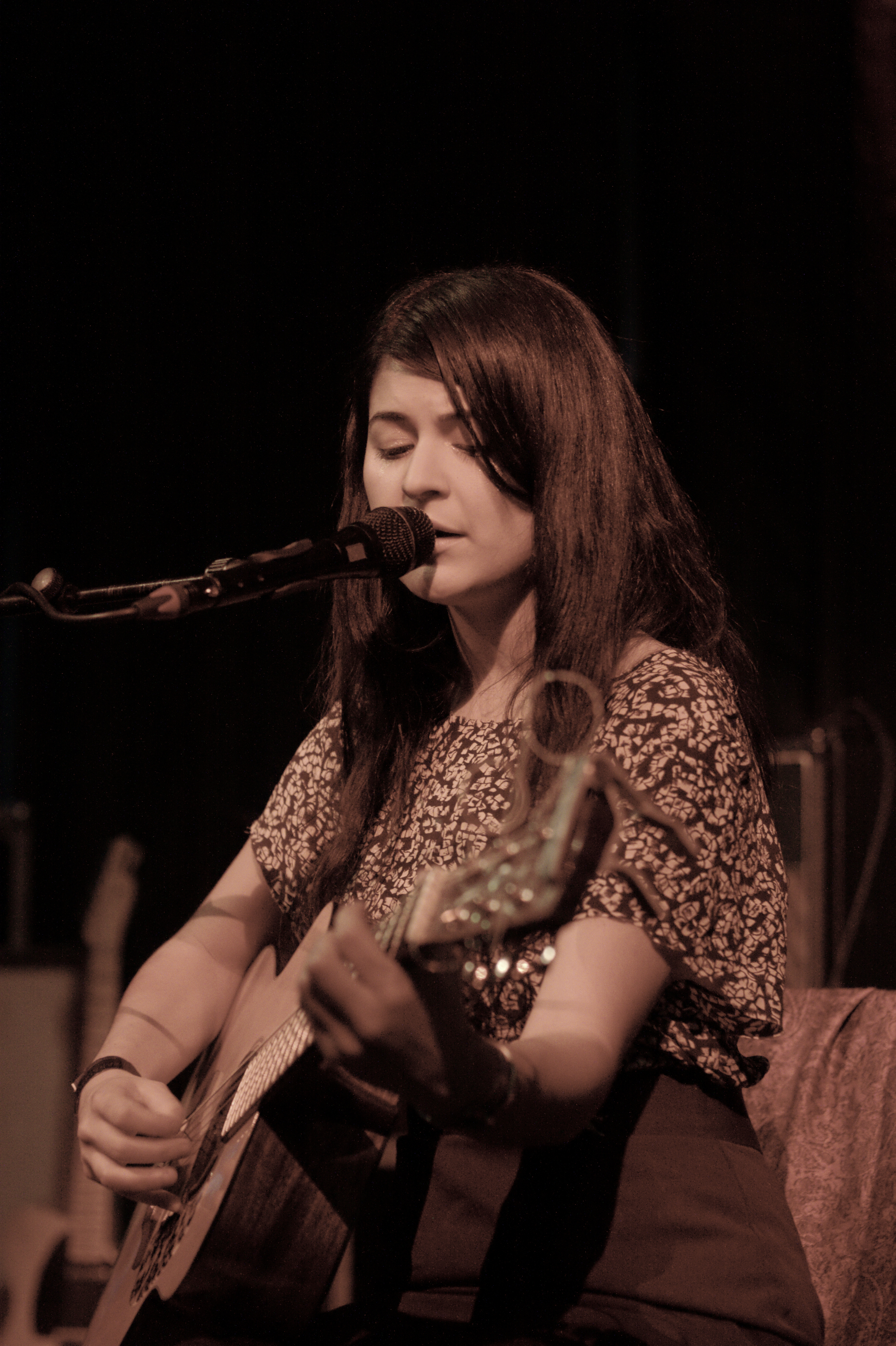 Mariee Sioux